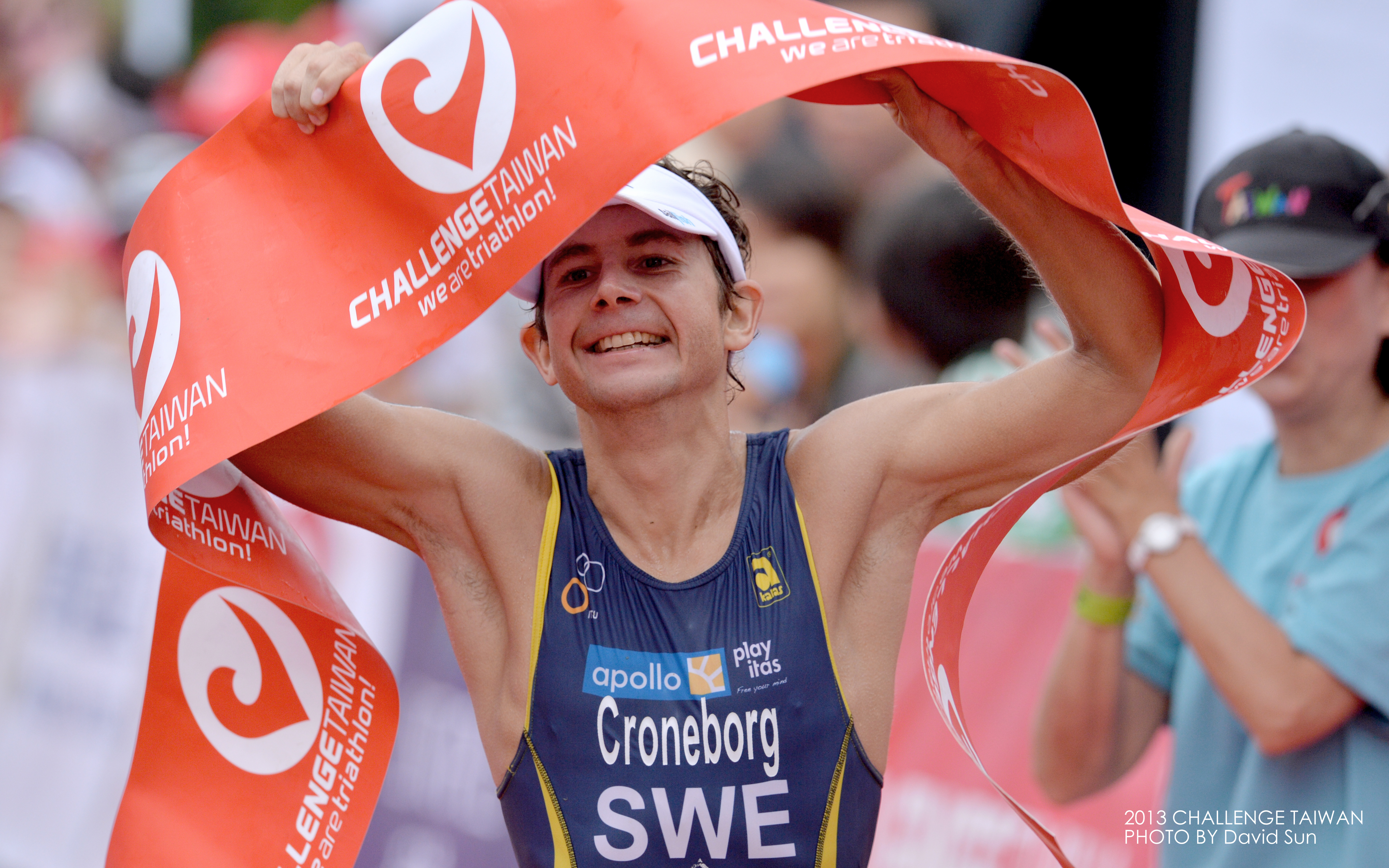 Fredrik Croneborg finishing at Challenge Taiwan 2013